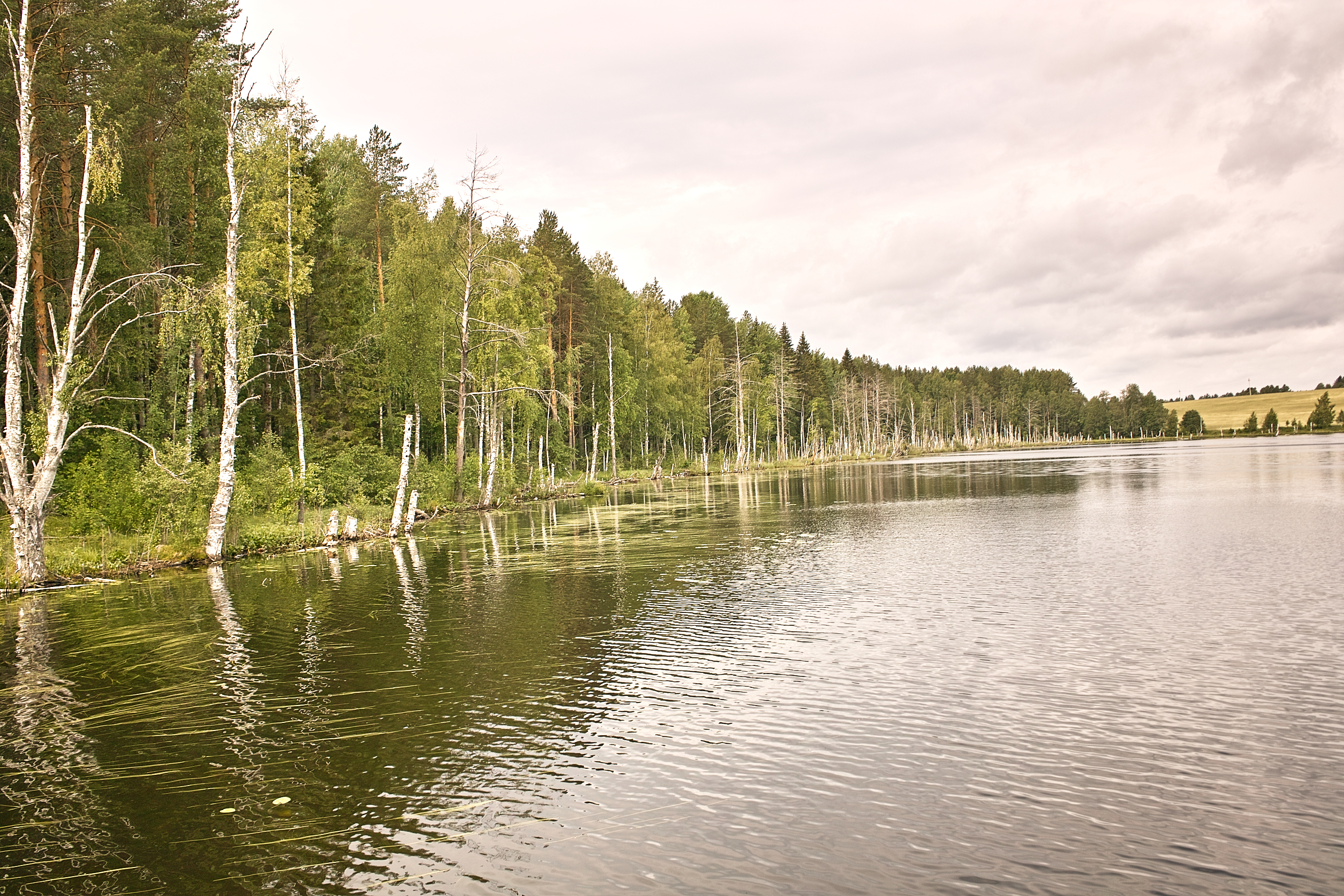 Lake near Tarnogskij gorodok